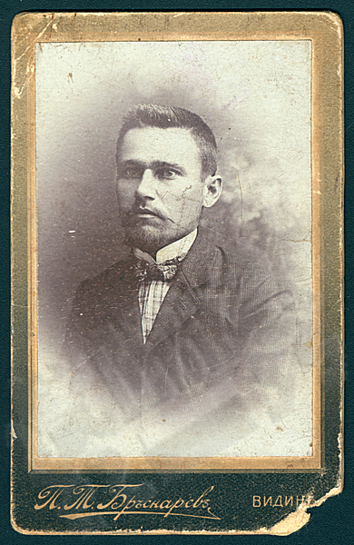 Panayot Bozhinov